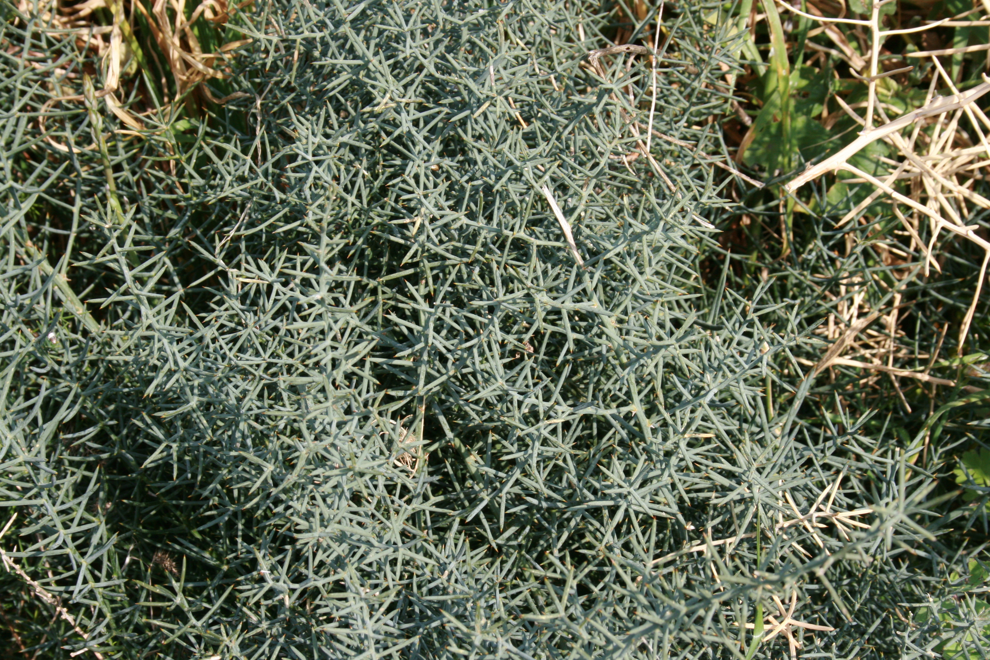 Asparagus stipularis growing at Pol·lèntia, an archaeological site in Alcúdia, Mallorca, Spain